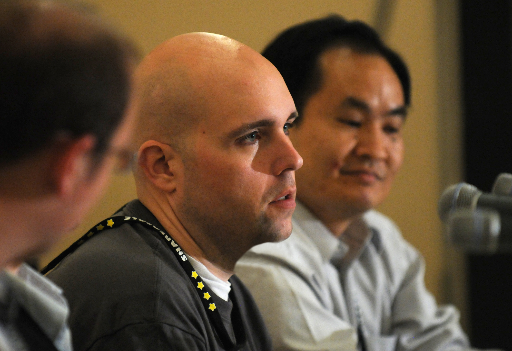 Jeremy "ShoeMoney" Schoemaker speaking about Facebook advertising at Affiliate Summit East 2009.